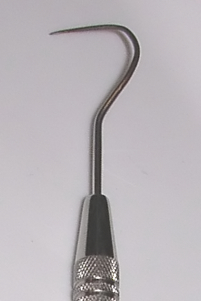 Photograph taken of dental explorer. Orginal image was cropped with Adobe Photoshop and cleaned up with Neat Image. Source: Photo taken by dozenist.